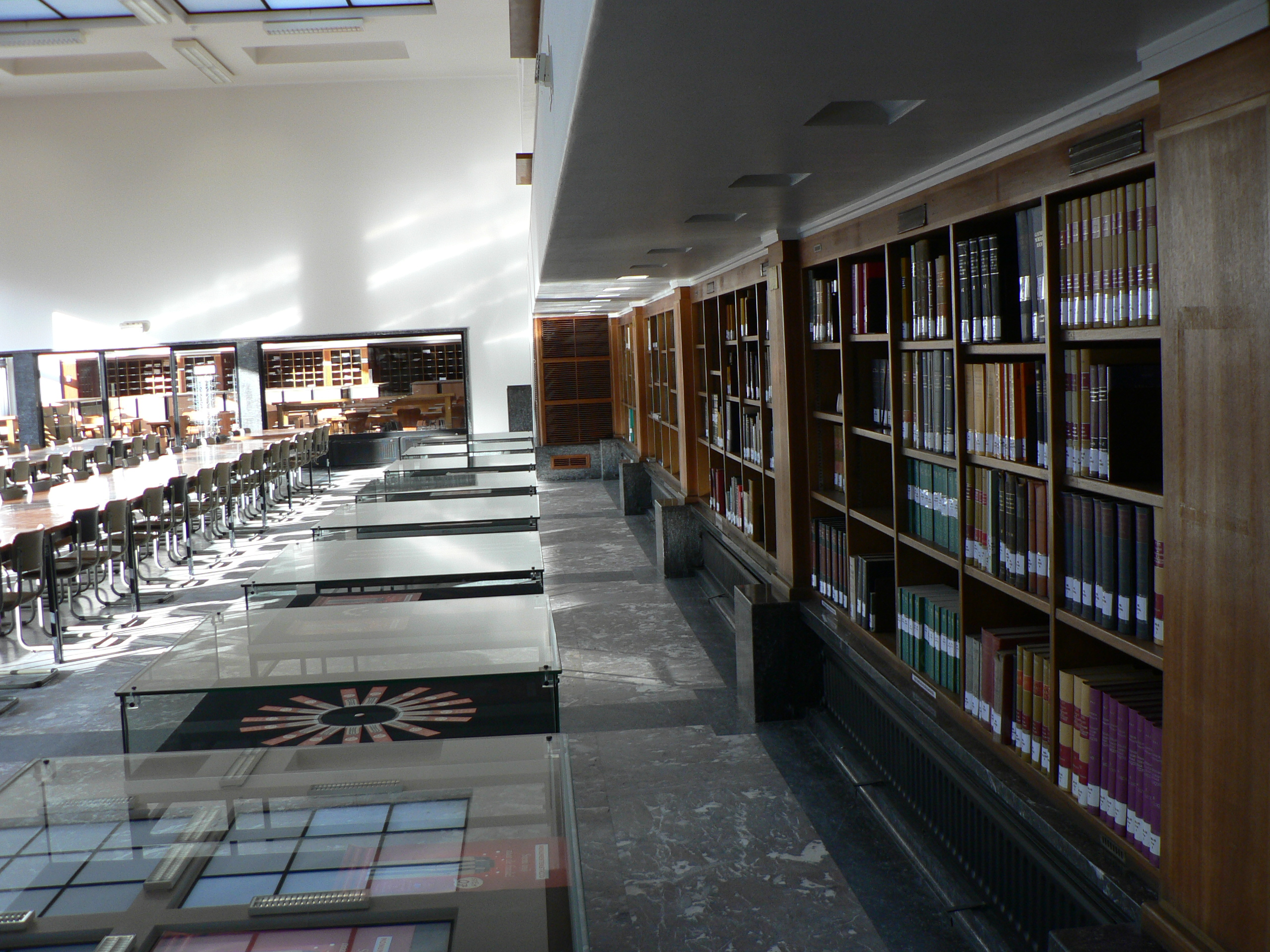 Reading room